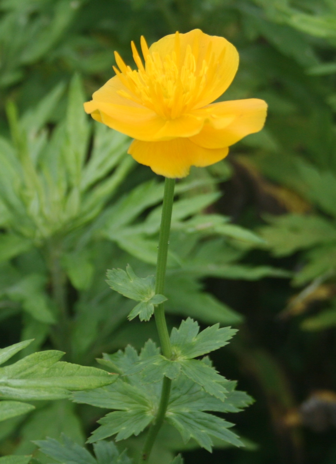 Trollius hondoensis in Mount Ibuki